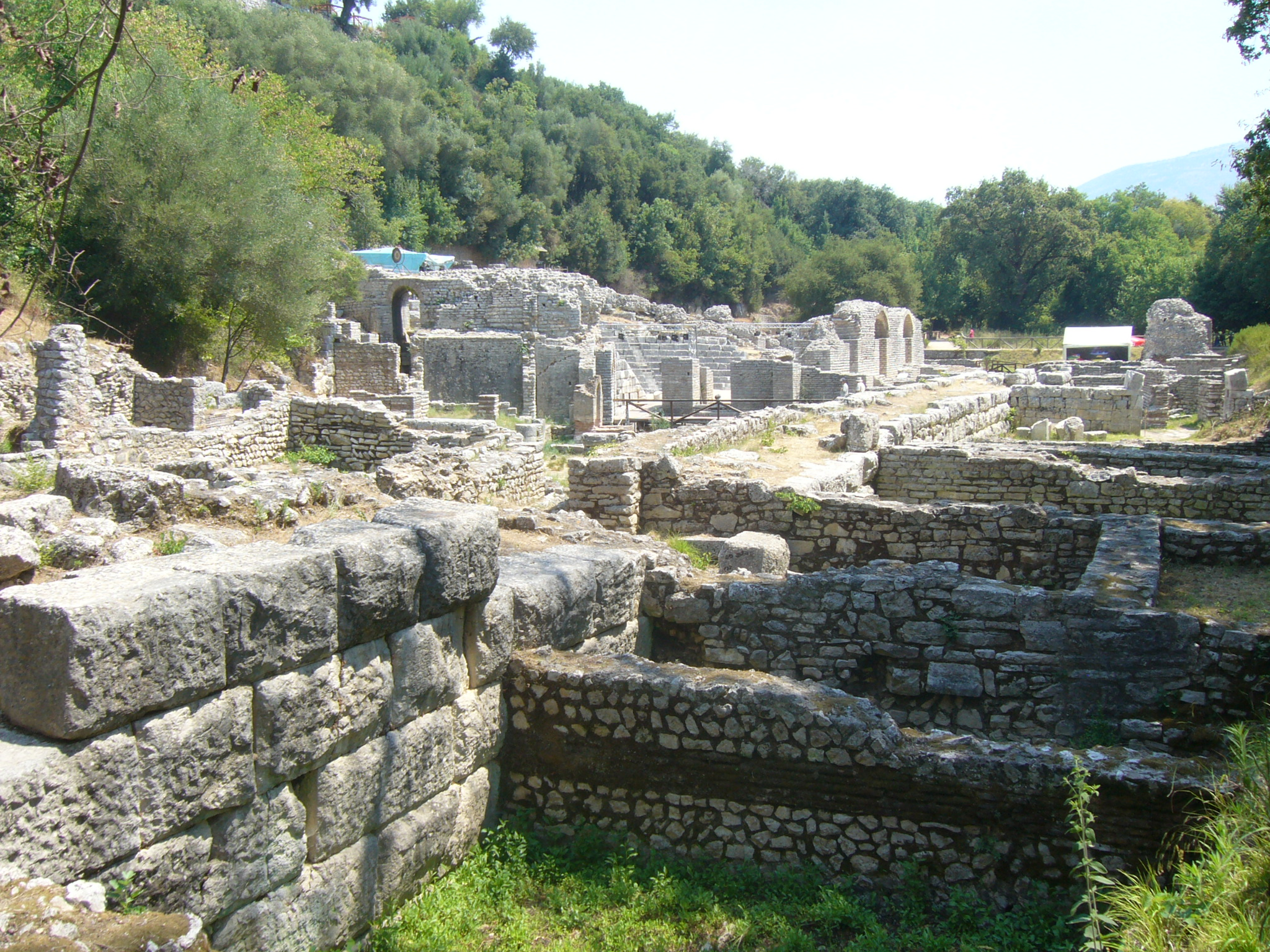 Butrint, Albania.